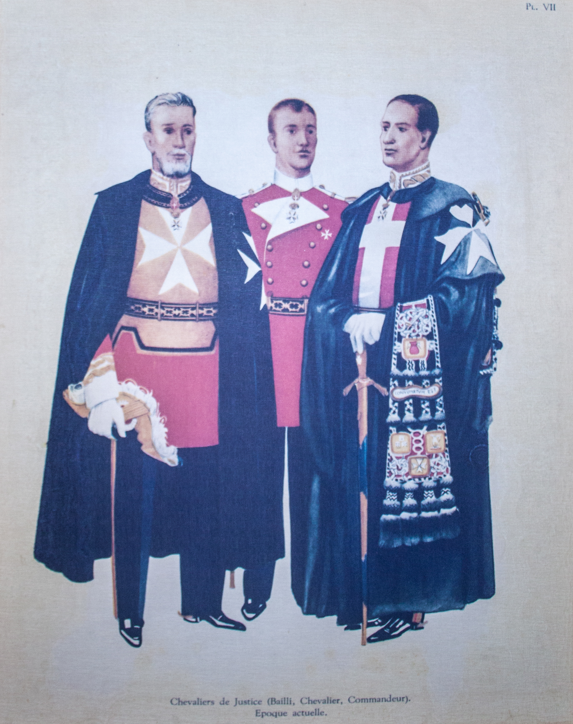 Drawing of people belonging to the Order of Saint John of Jerusalem from the end of the 18th century